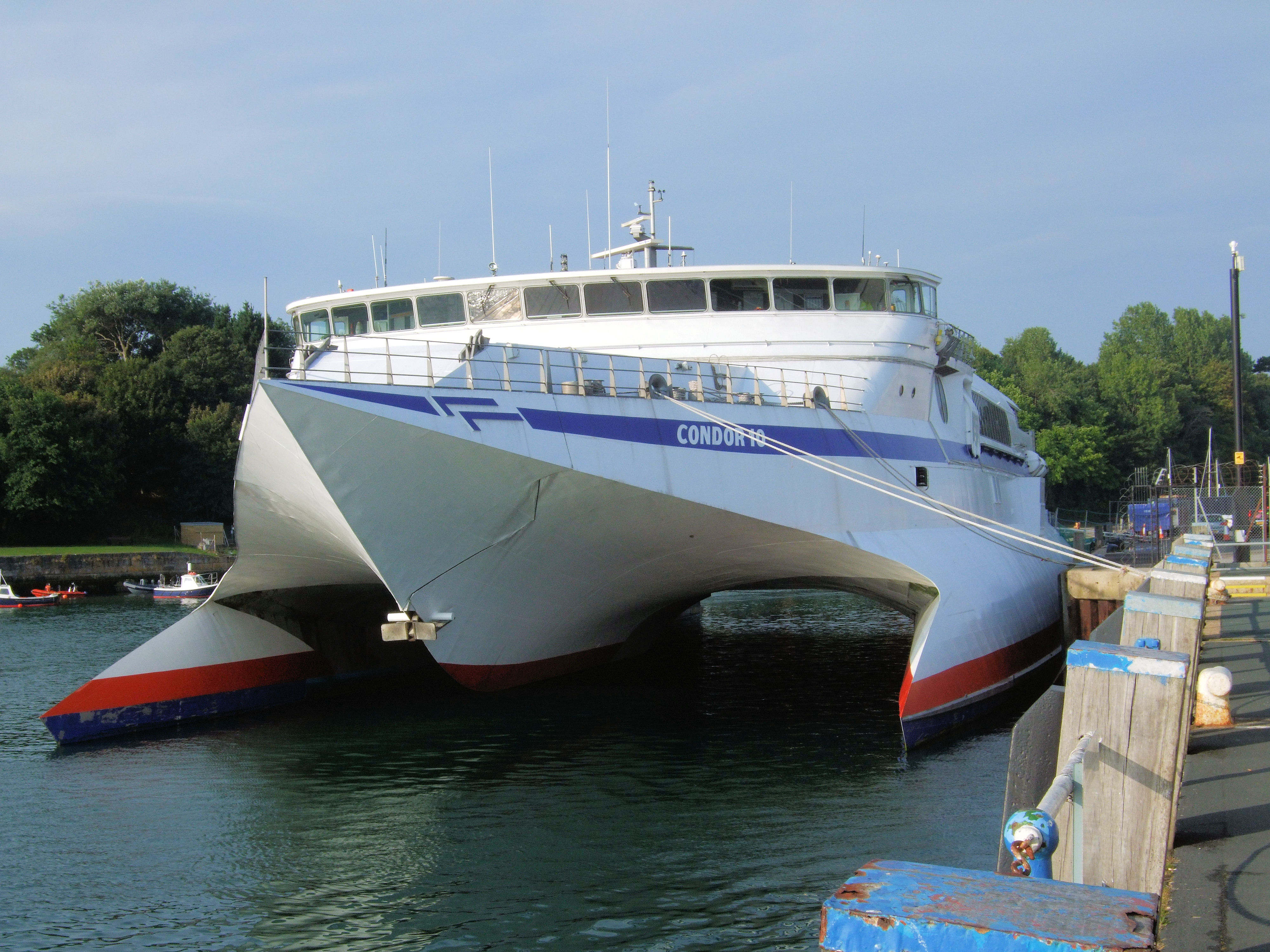 Condor 10 moored in Weymouth, Dorset.